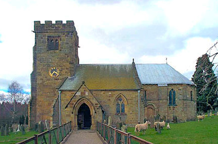 St Felix' parish church, Felixkirk, North Yorkshire, seen from the south